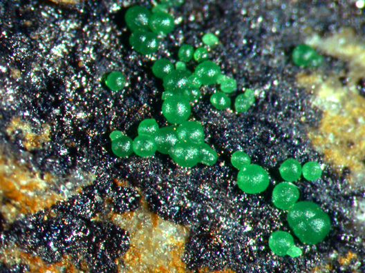 Cornwallite Locality: Pastrana, Mazarrón-Águilas, Murcia, Spain (Locality at ) Size: 4.3 x 3.7 x 2.2 cm. Cornwallite is an uncommon Copper Arsenate which gets its name from the classic English mining district. This specimen is from Spain and features some small yet beautiful emerald-green Cornwallite aggregates on matrix. A good reference specimen of this attractive material.